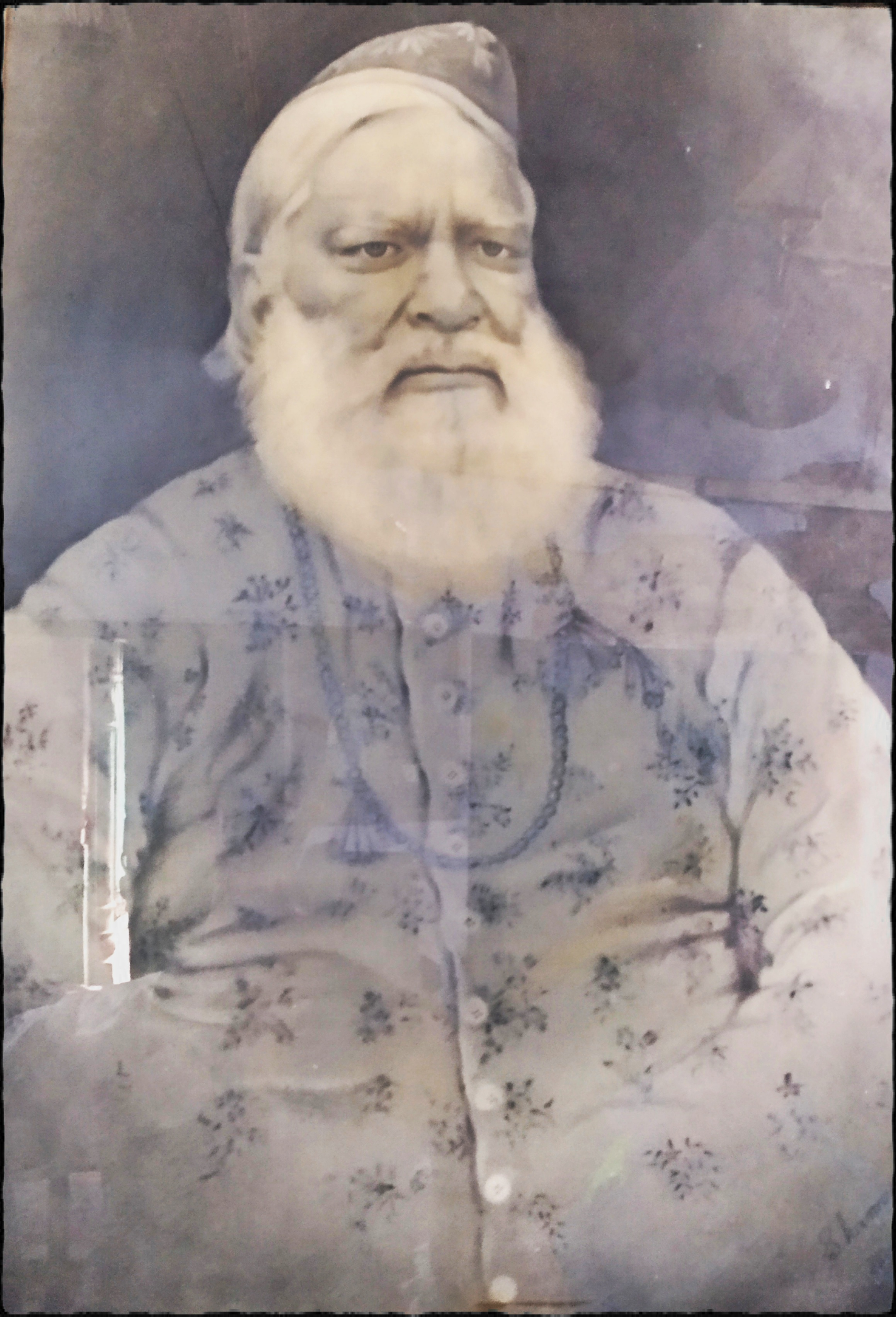 Shah Akbar Danapuri portrait by great artist of Agra Shamsuddin Mohsini